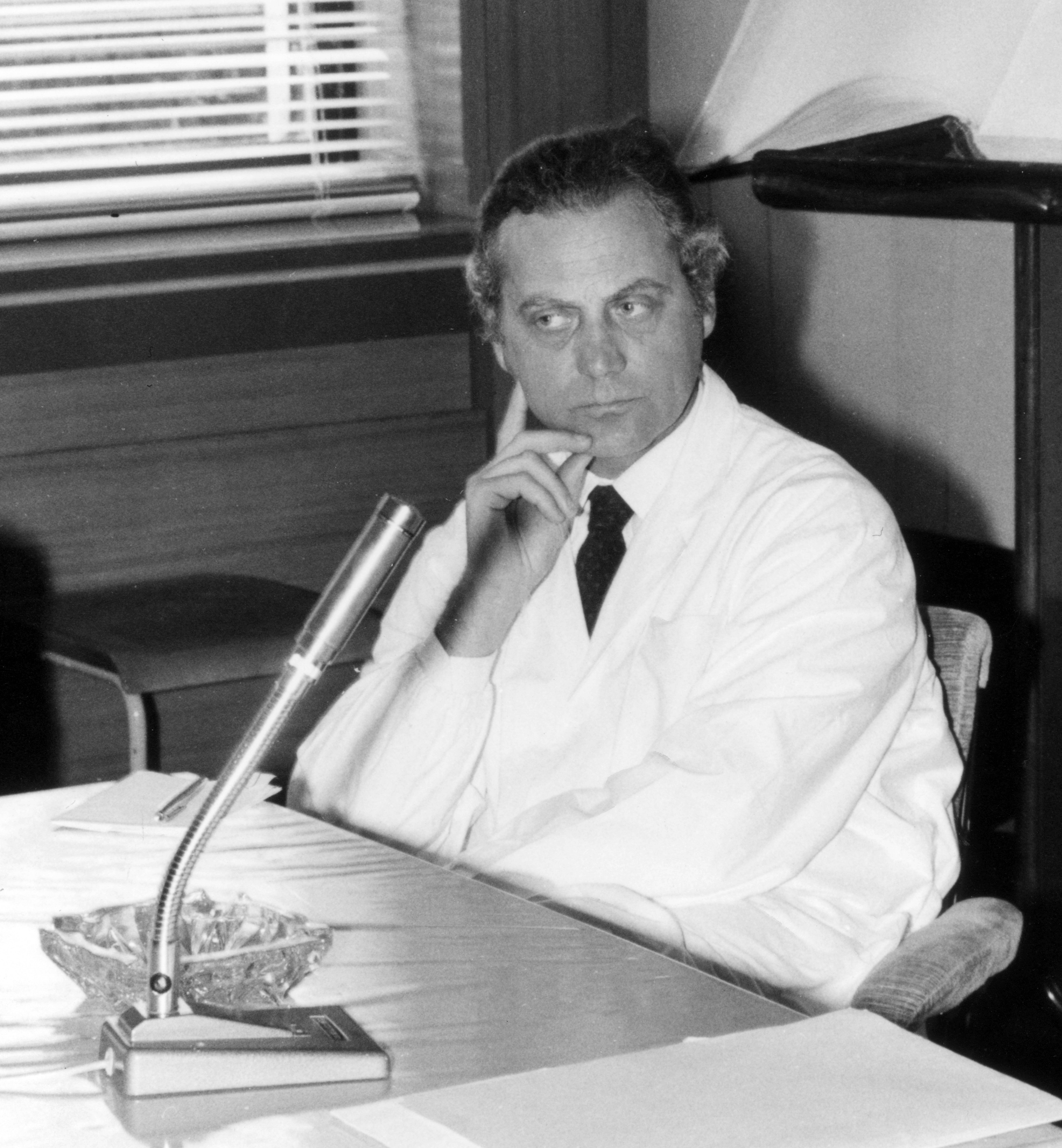 Italian neuropsychiatrist Maurizio De Negri (1926-)